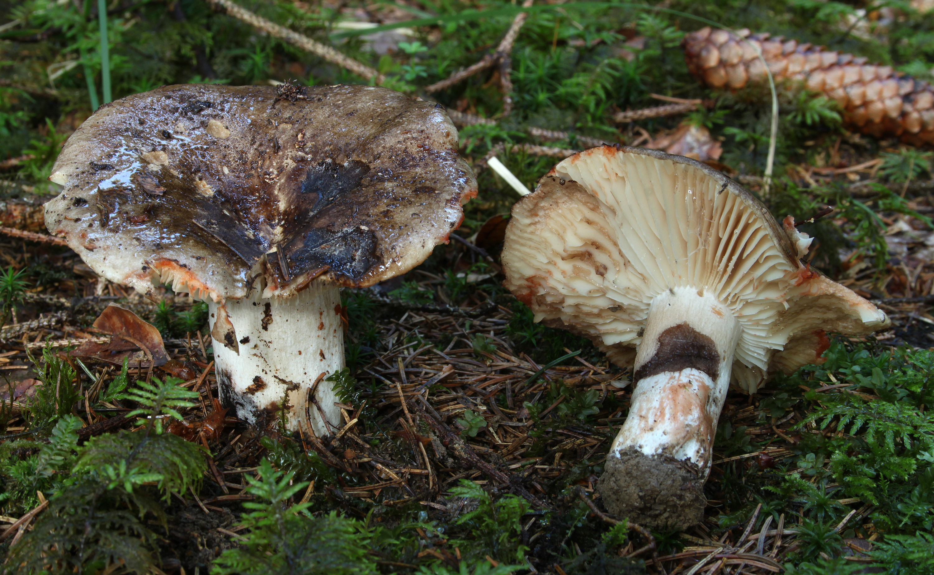 Blackening Brittlegill or Blackening Russula, Russula nigricans, Family: Russulaceae, Location: Germany, Erbach, Ringingen